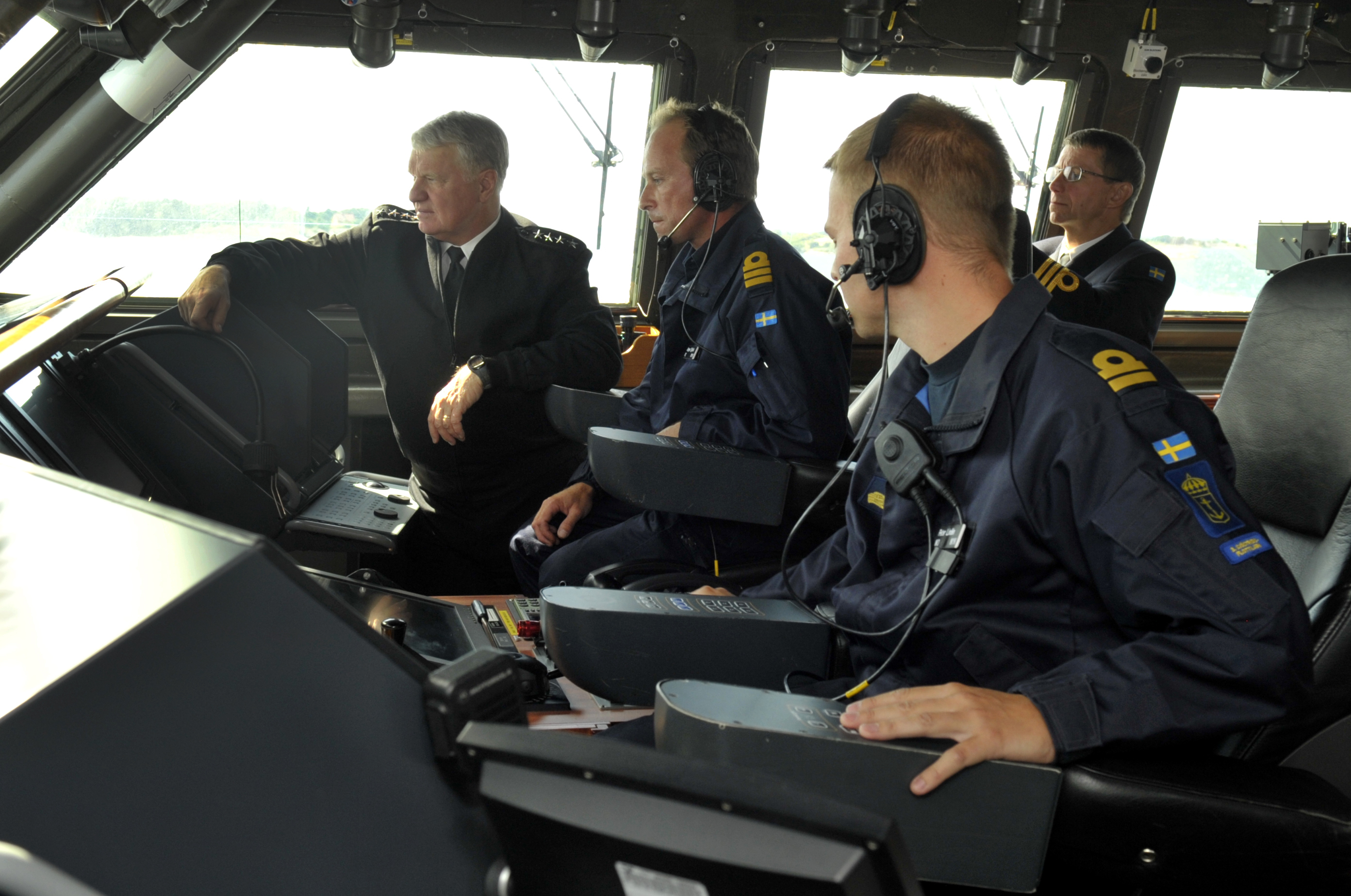 KARLSKRONA, Sweden (Aug. 19, 2010) On the bridge, Chief of Naval Operations (CNO) Adm. Gary Roughead, left, looks on as the crew members of the Visby Corvette HSwMS NYKOPING get underway from Naval Base Karlskrona Naval Base. (U.S. Navy photo by Mass Communication Specialist 1st Class Tiffini Jones Vanderwyst/Released)